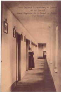 A beguine stading in the door of her room.